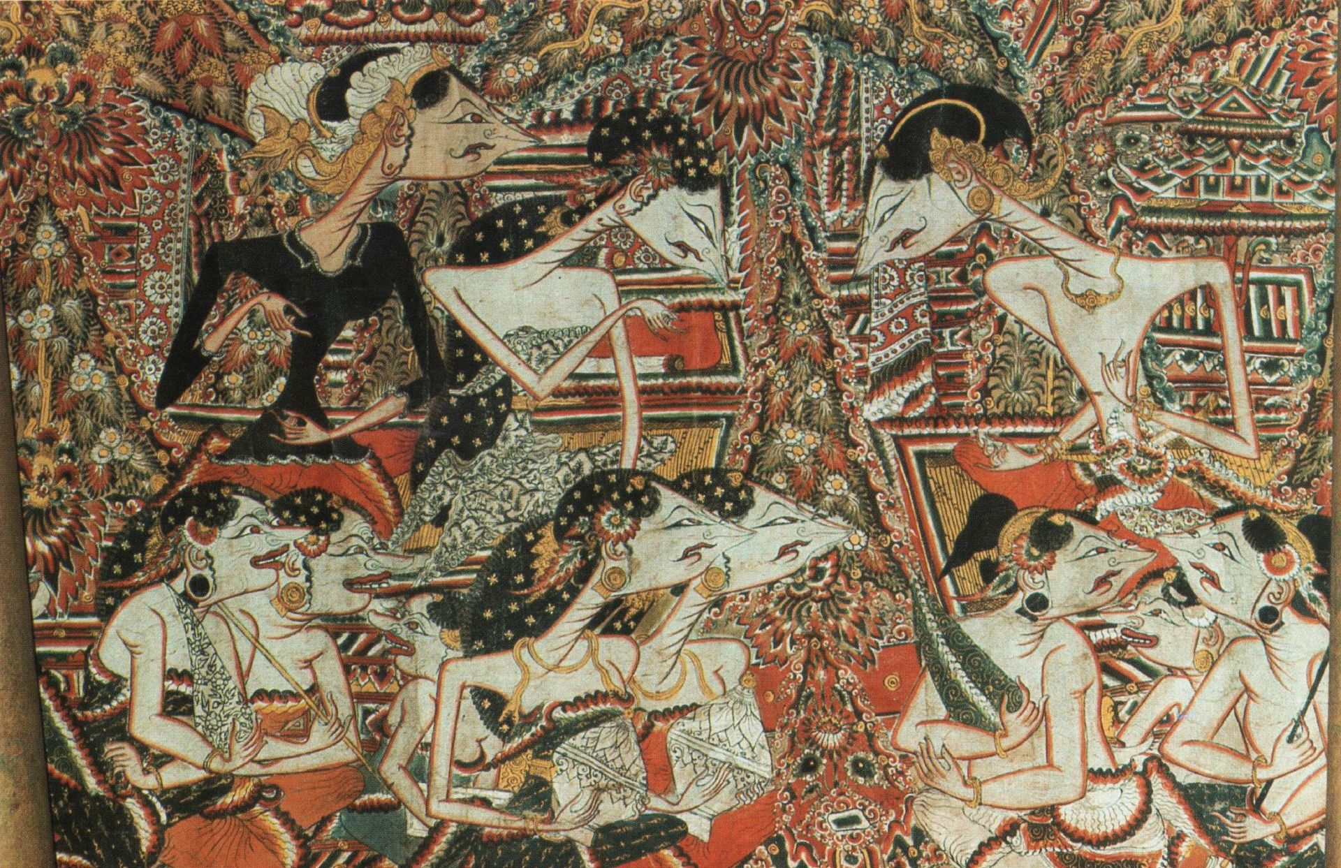 Wayang beber Gedompol, picture roll 6, scene 3. Princess Sekar Taji, mbok Kili (left) and Ganda Ripa or Panji (right) in the palace in Kediri